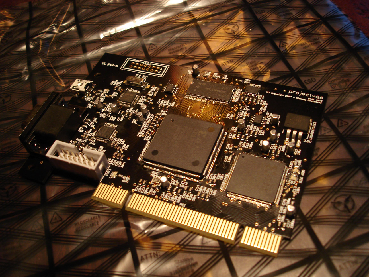 An assembled Project VGA graphics board, photographed on anti static packaging.